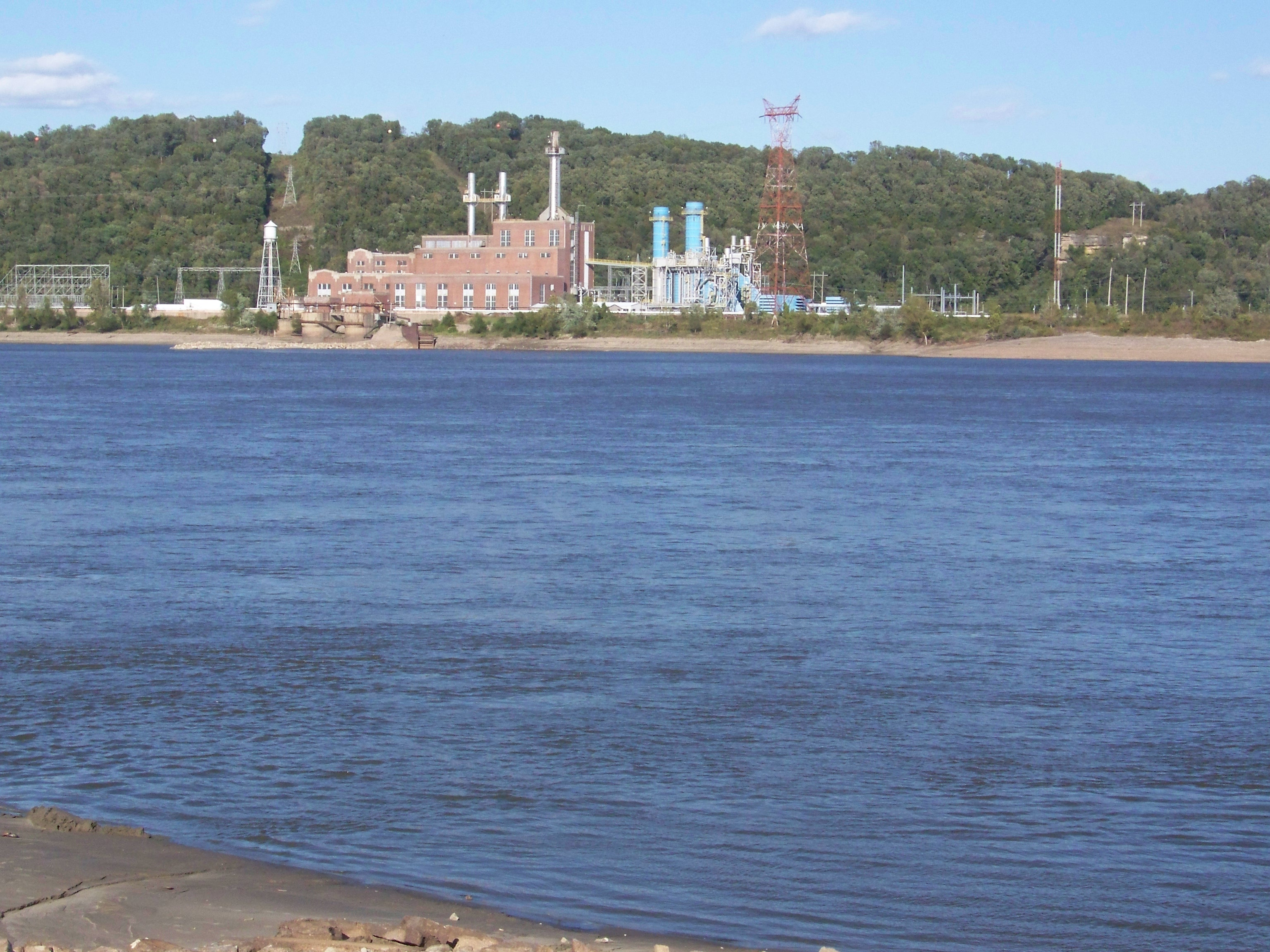 Grand Tower Energy Center, near Grand Tower, Illinois along the Mississippi River